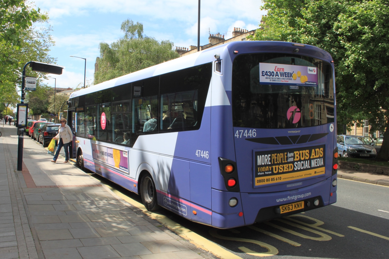 A passenegr alights from a Wright Streetlite of the First Bristol fleet (their number 47446; registration SK63KNV) outside the Students' Union in Clifton.